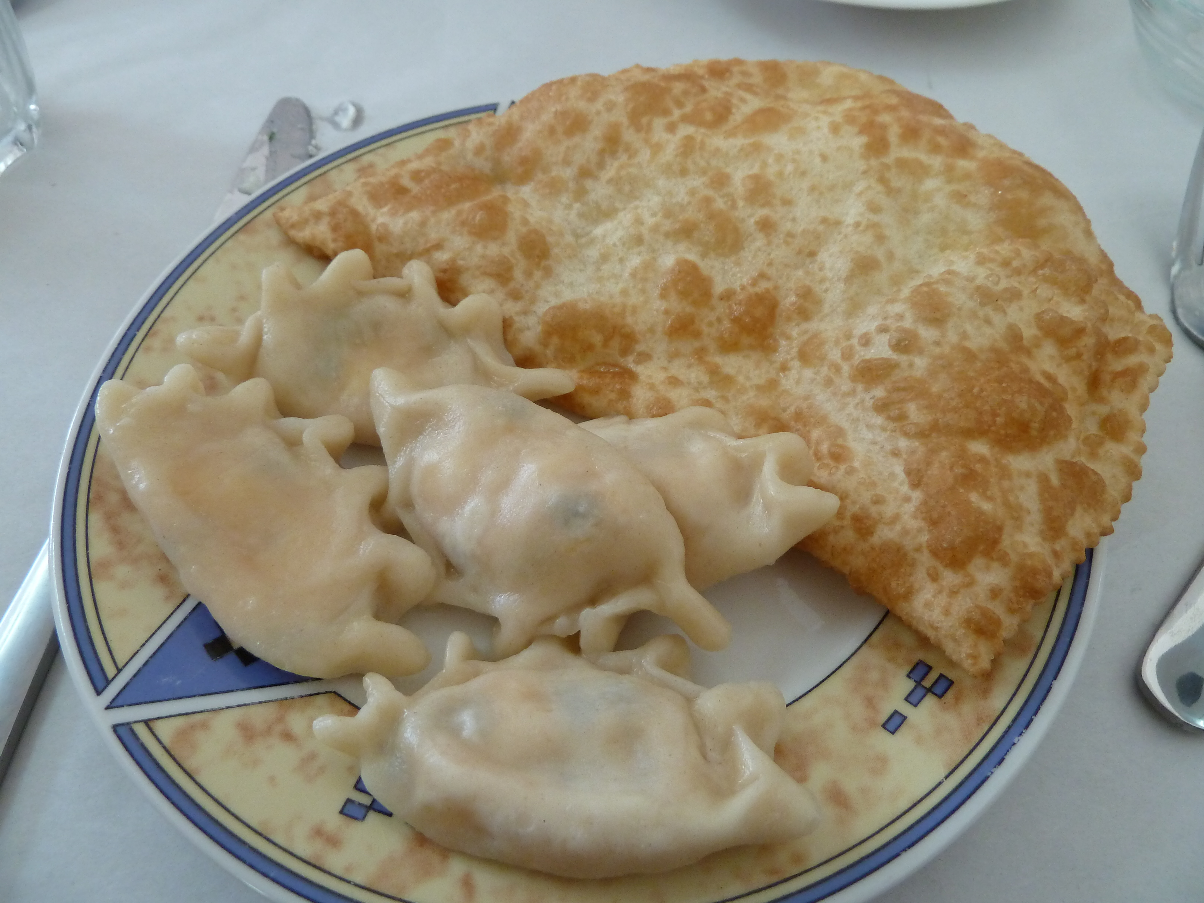 Hal'vaz (right) and Mat'za (left), Circassian Cuisine, Kafer Kama, Israel